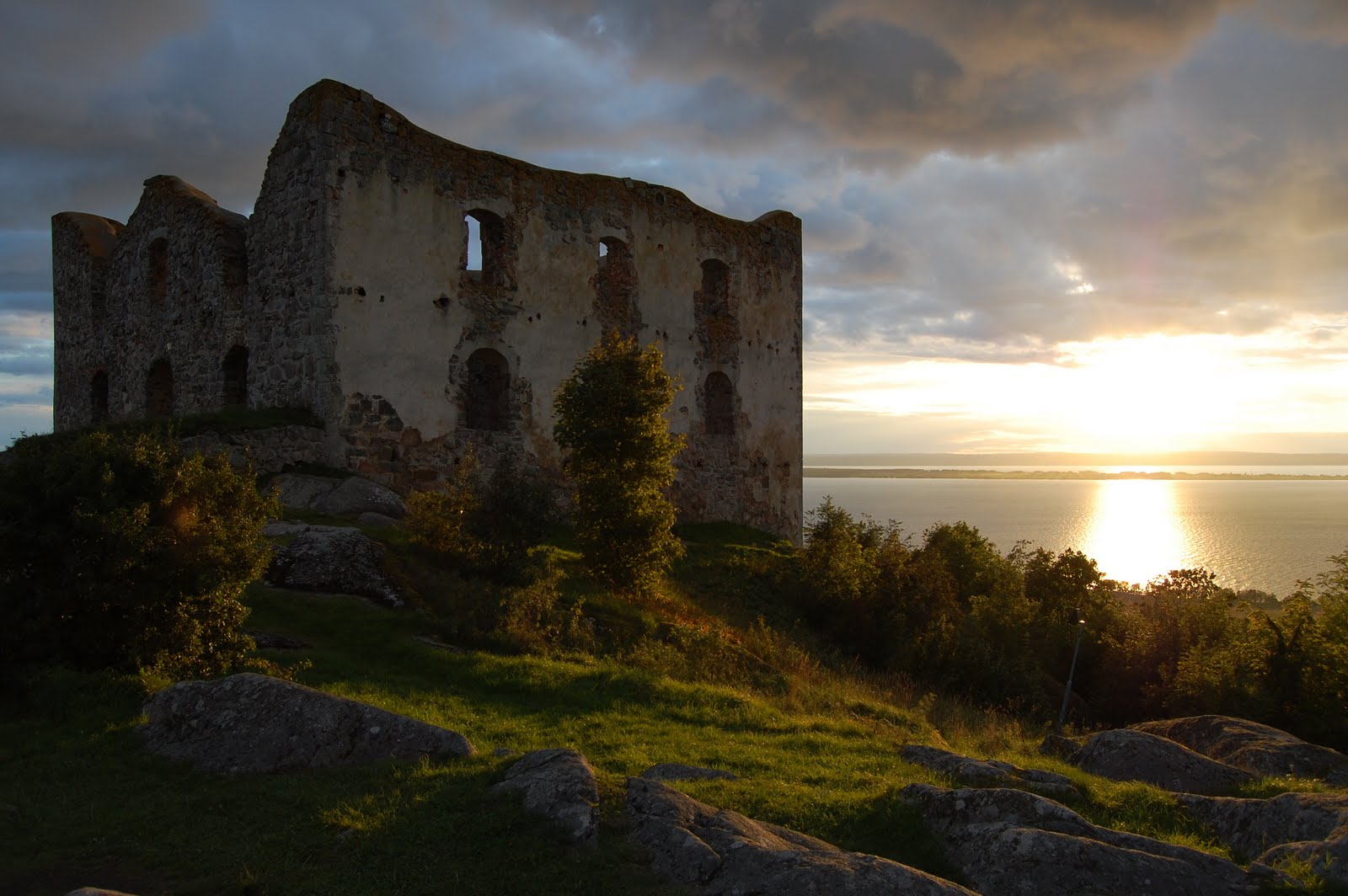 Sunset in Brahehus, no filter, no photoshop, just pure beauty!